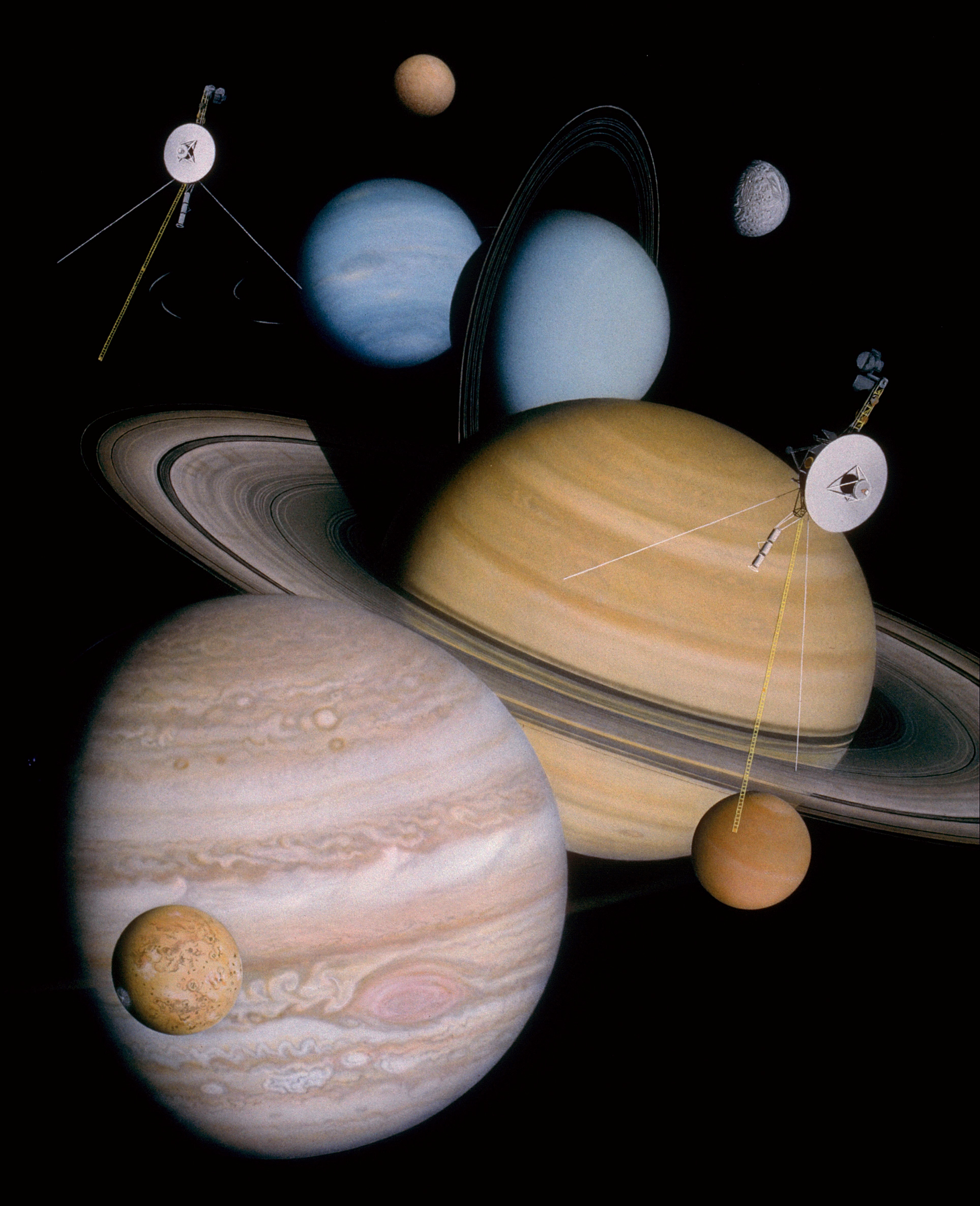 Artist's impression of the Voyager space probes (1977—) with the outer worlds they passed. Artist's description: "This painting was commissioned by JPL to commemorate the outer planets mission of the successful pair of Voyager spacecraft. Although done in traditional media, computer drawings were generated as an aid to creating perspective rings of the proper scale for each world, which also has one Moon each highlighted. Only distant shots of Neptune were available at the time the work was done, and the hypothetical 'ring arcs' are included as modeled from earth based star occultation data. Acrylic on board for NASA, JPL."